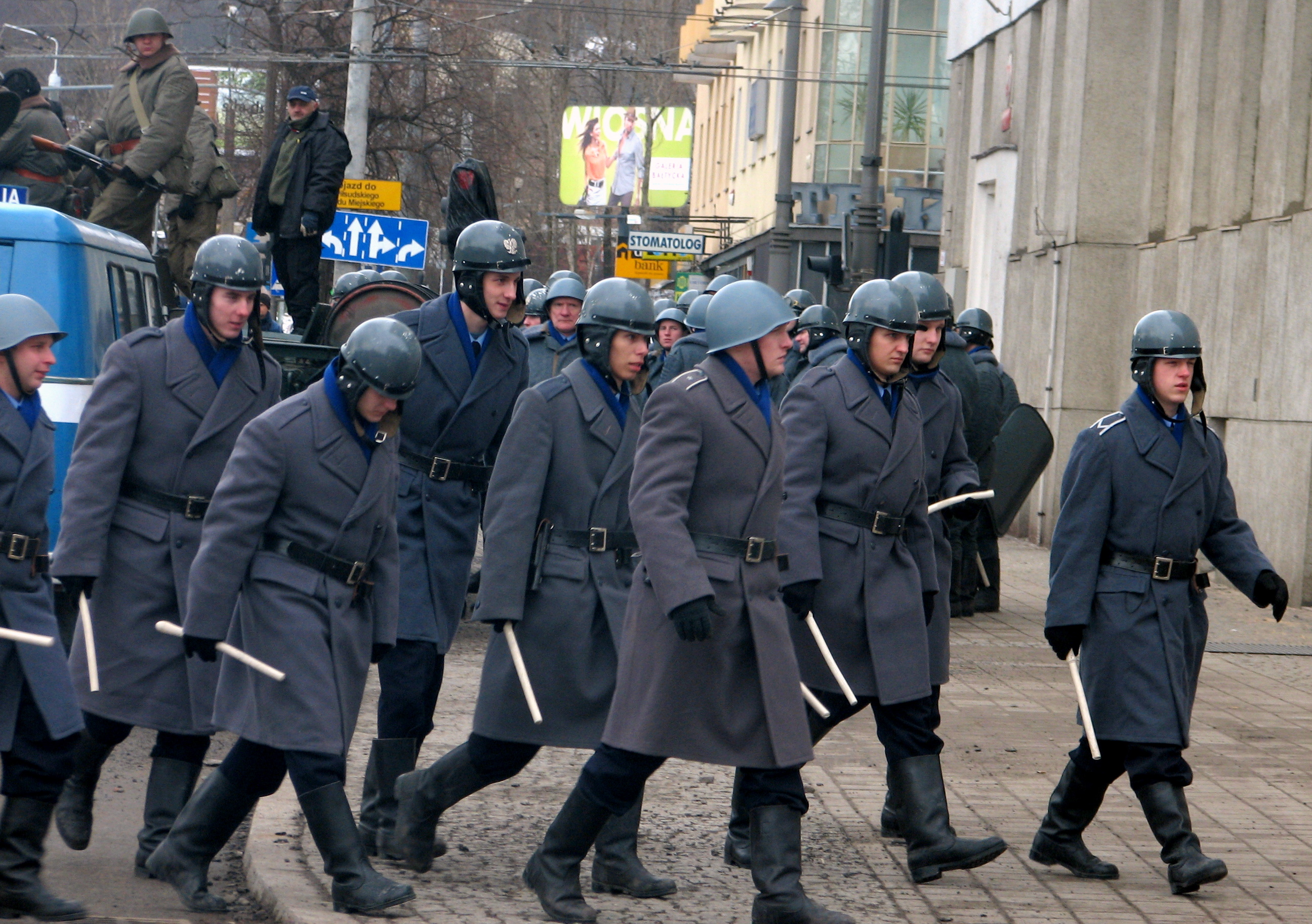 Filming of "Black Thursday" at intersection of ulica Świętojańska and Aleja Józefa Piłsudskiego in Gdynia. People on this picture are actors, extras, and film crew. "Black Thursday" is a film about Polish 1970 protests.